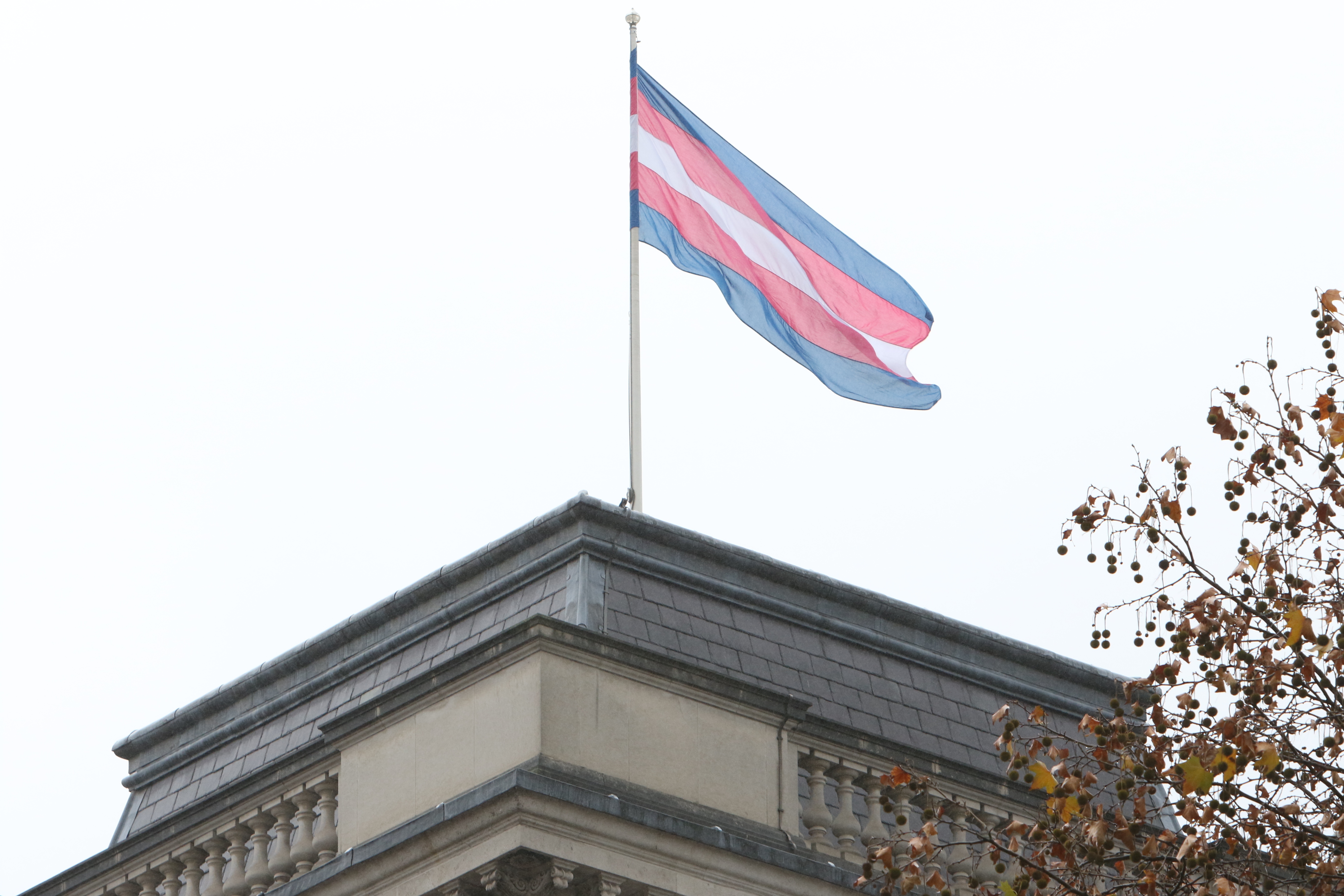 The Transgender Pride Flag flies on the Foreign Office building in London on Transgender Day of Remembrance, 20 November 2018.